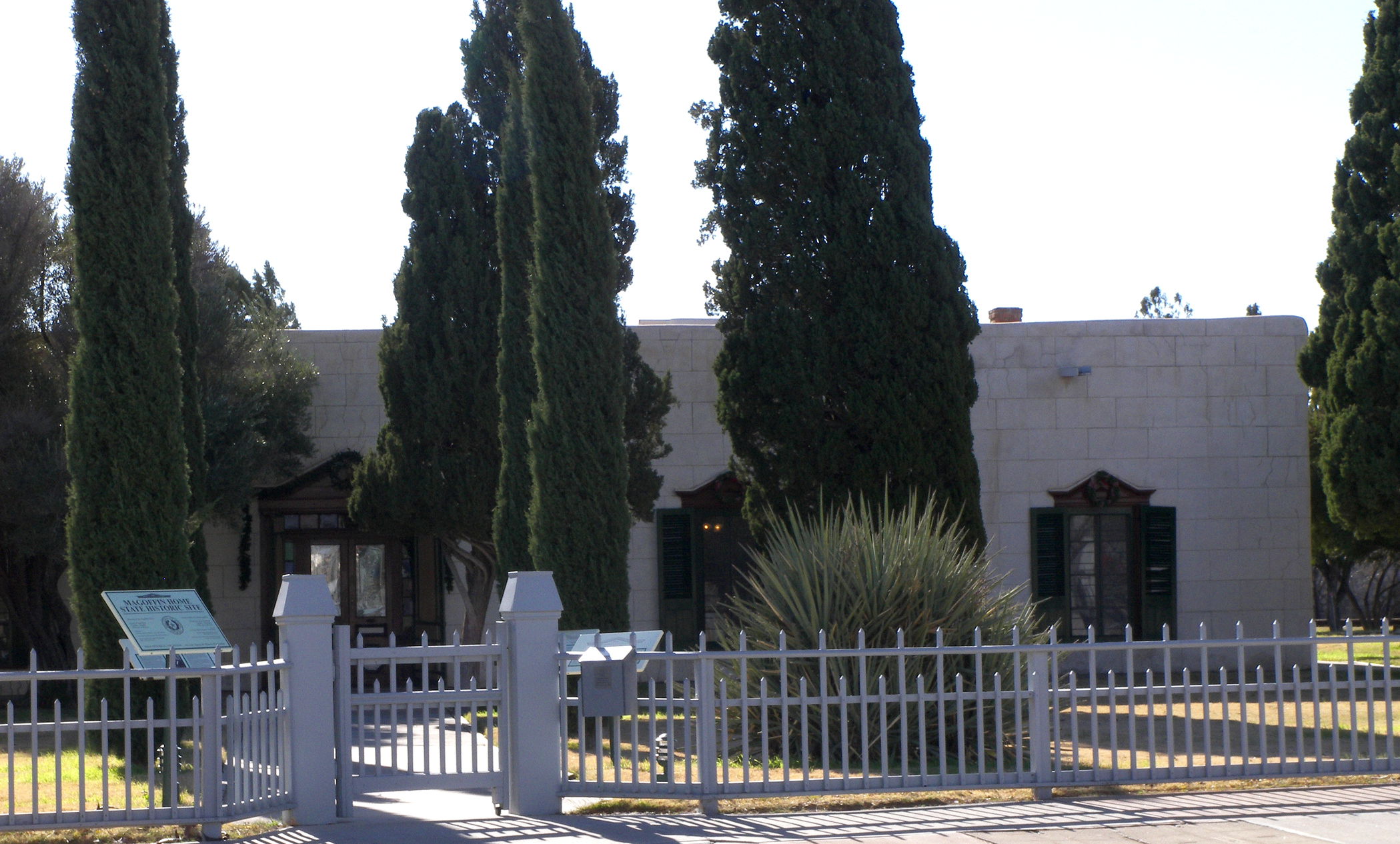 The Magoffin Homestead, located at 1120 Magoffin Ave, El Paso, Texas, United States. It was listed on the National Register of Historic Places on March 31, 1971.